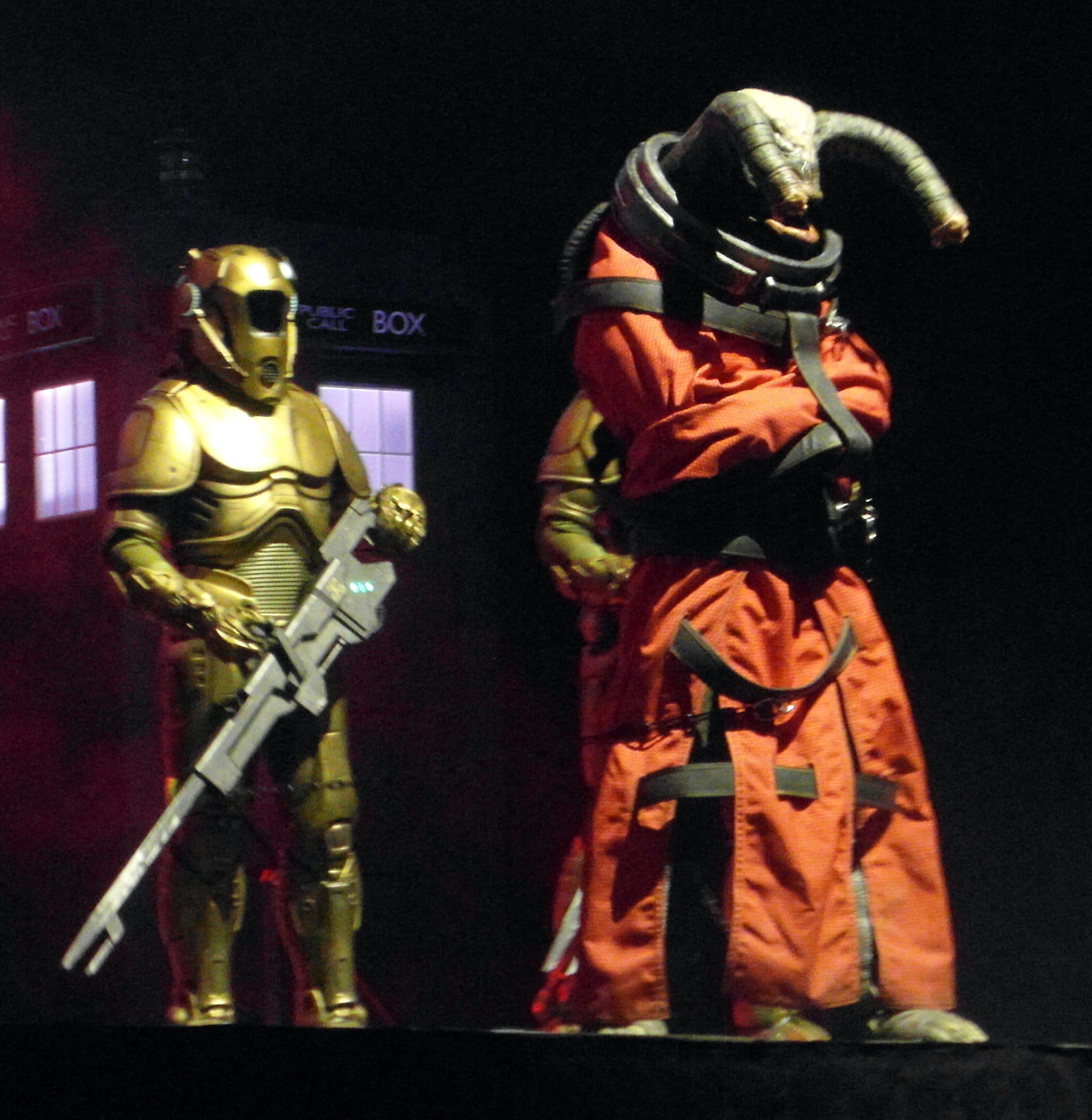 Elin Manahan Thomas watches on as The Teller (from the 2014 episode Time Heist) prowls the stage.... Wednesday 27th May, 7.30pm performance. Doctor Who Symphonic Spectacular